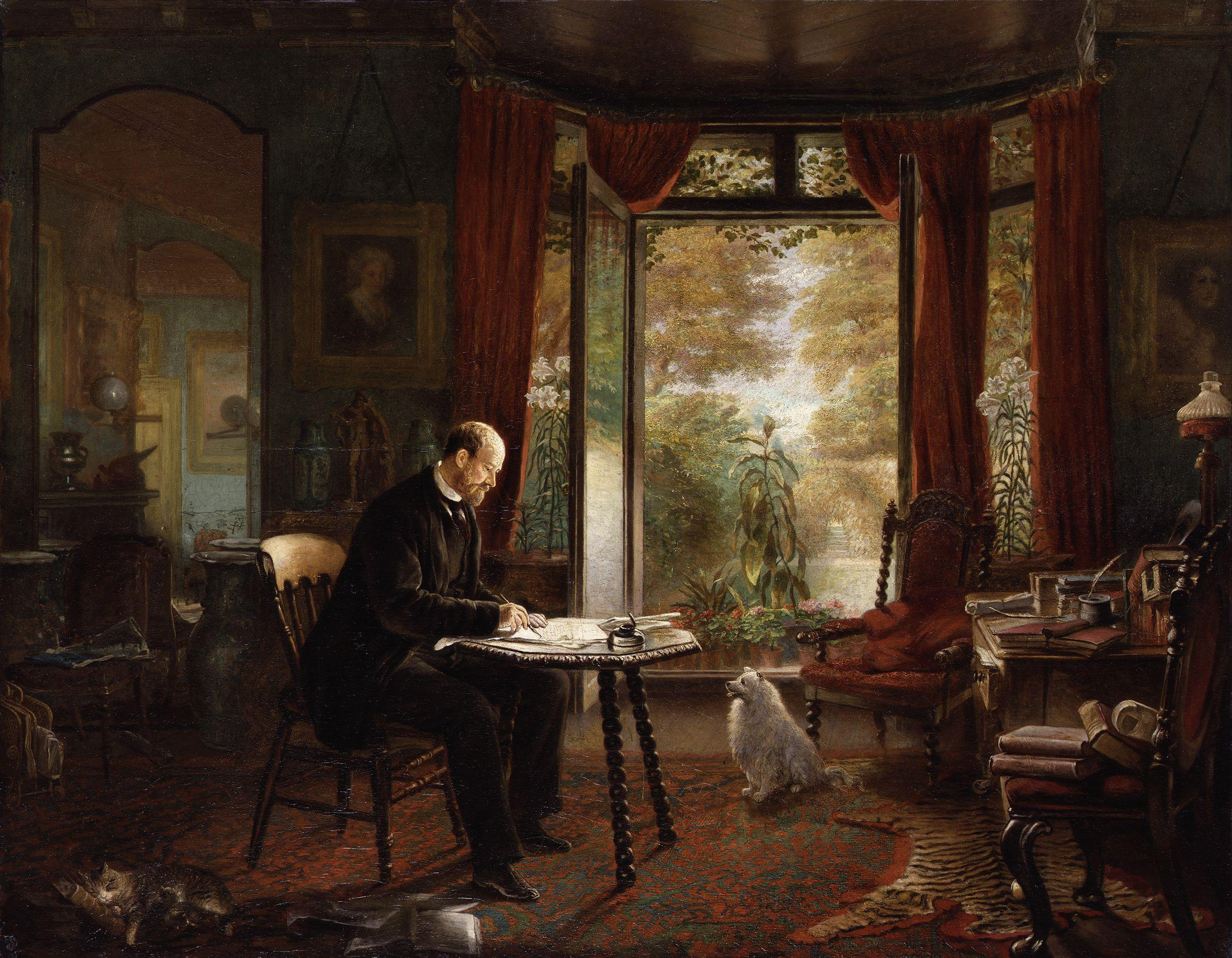 Charles Reade, by Charles Mercier, given to the National Portrait Gallery, London in 1929. All images in this batch have a known author, but have manually examined for strong evidence that the author was dead before 1939, such as approximate death dates, birth dates, floruit dates, and publication dates.